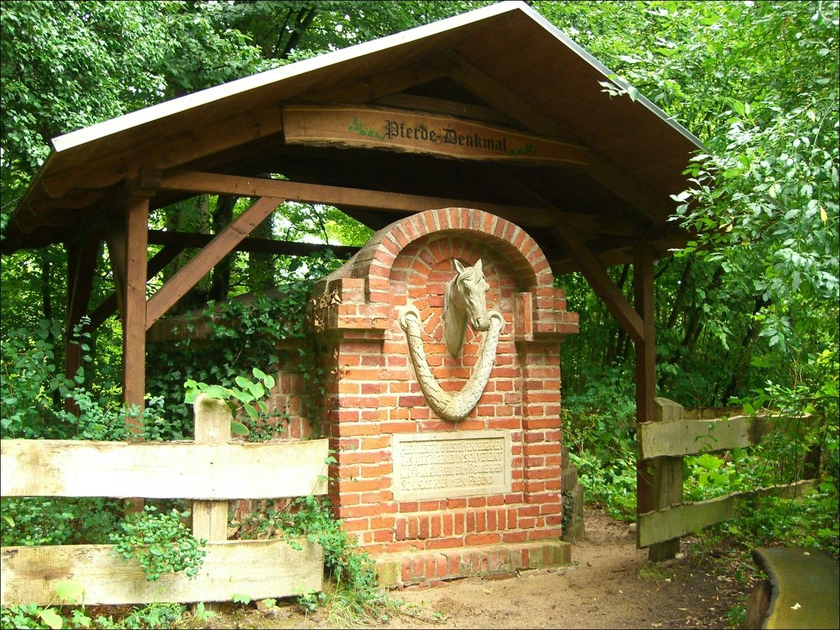 Grave of the lovely horse of Grand Duke Friedrich Franz I. Mecklenburg-Schwerin in Ludwigslust.